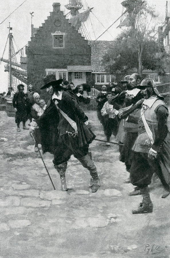 Peter Stuyvesant